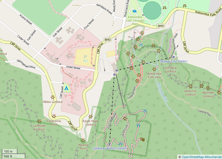 Katoomba Scenic World